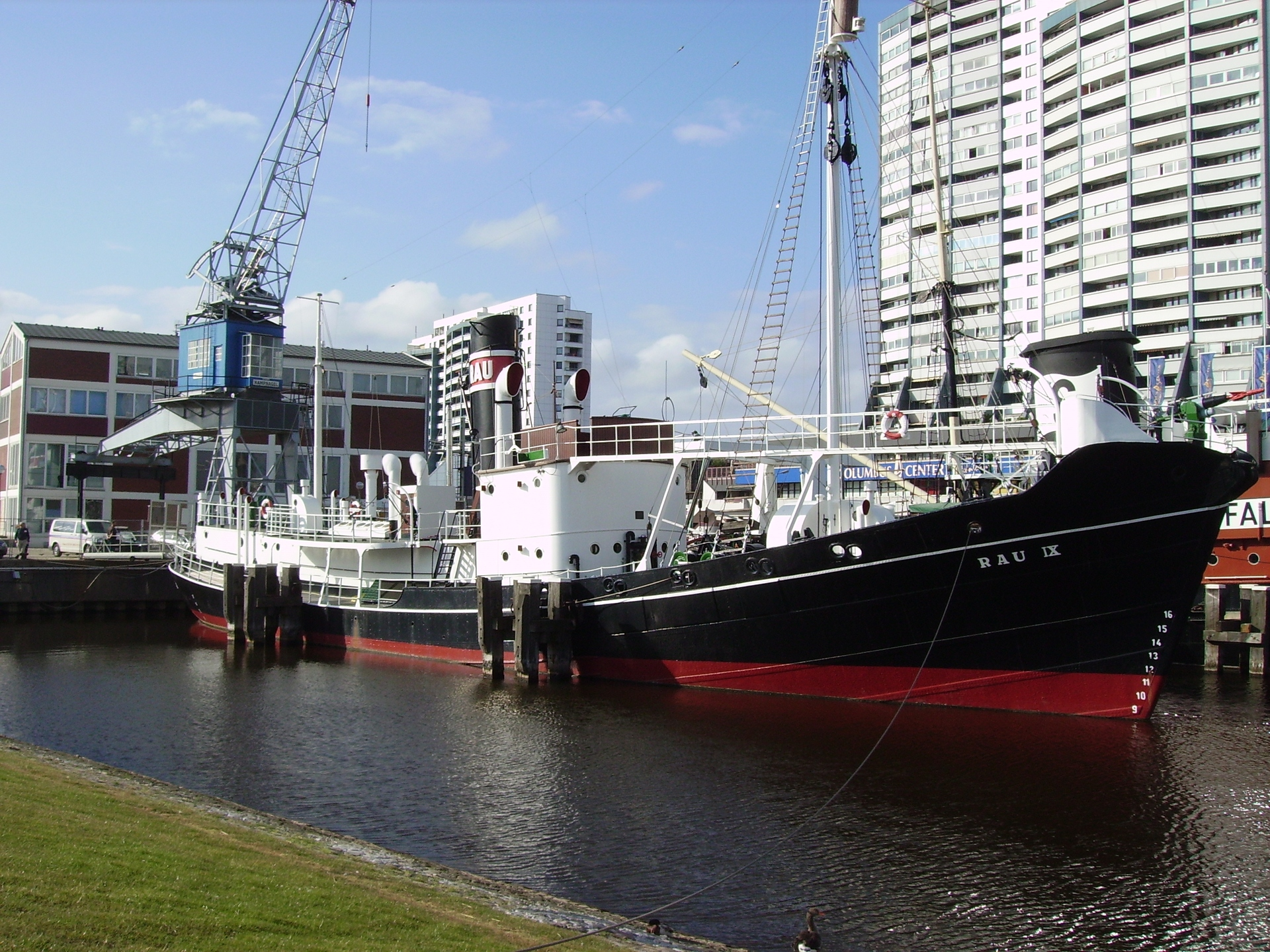 The old whaler "Rau IX" in the museum port of Bremerhaven, Germany. The ship belongs to the German Maritime Museum.